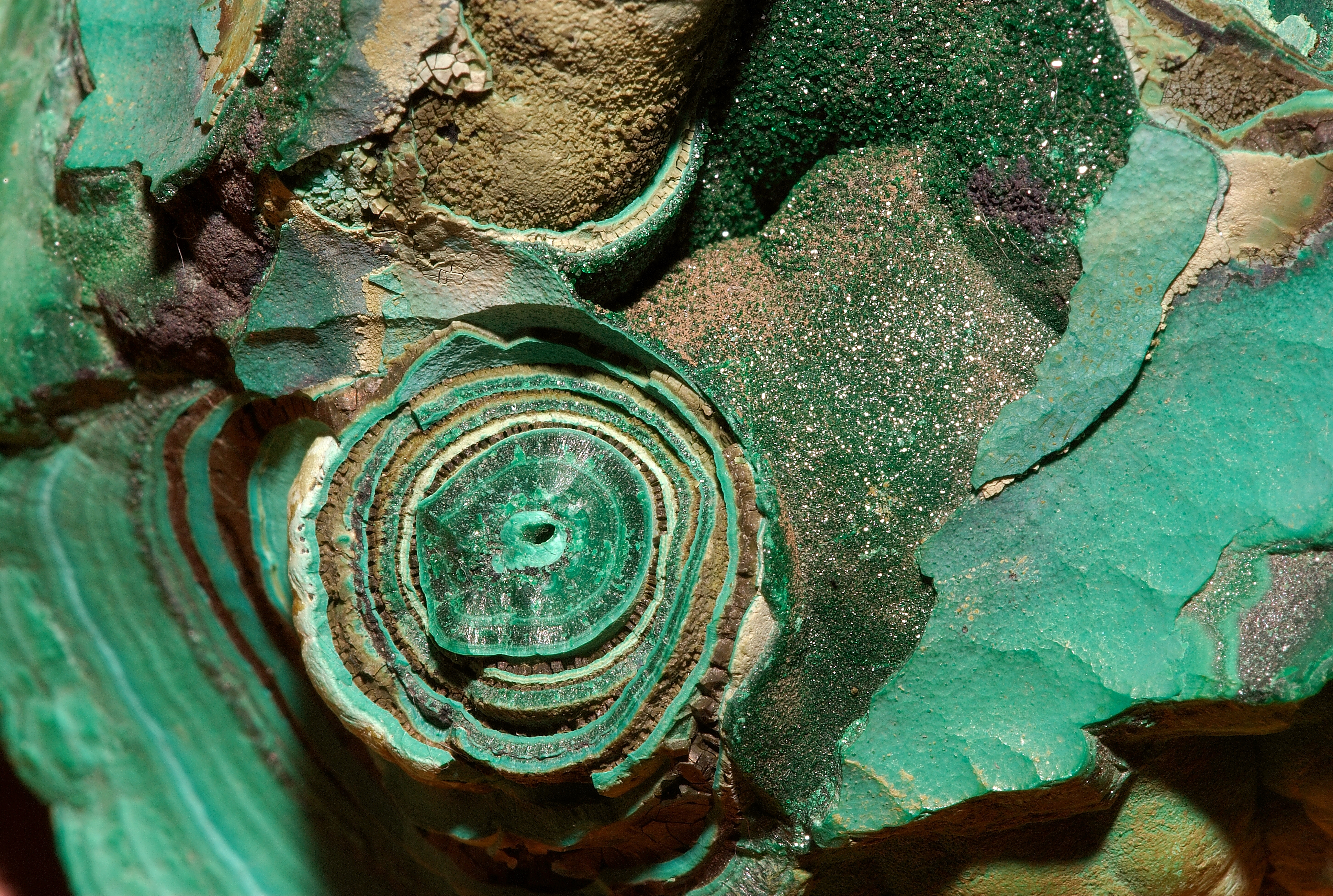 Malachite to Congo